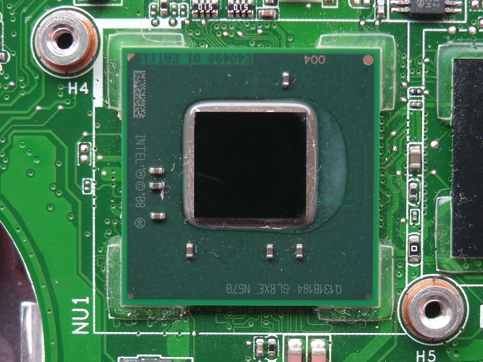 Intel Atom N570 (sSpec SLBXE) with 1,67 GHz on an Asus 1011PX mainboard. micro-FCBGA8 559 package.